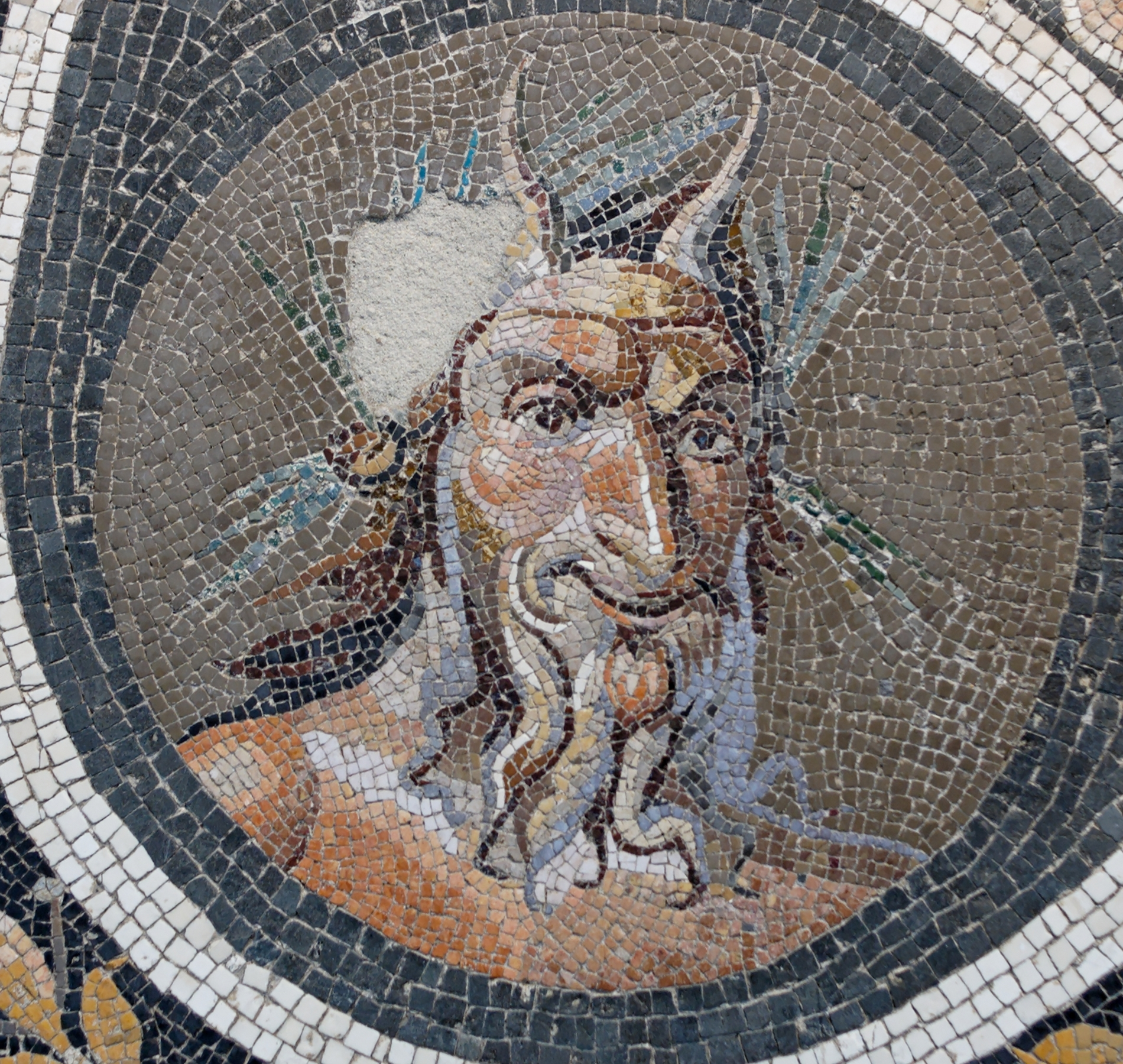 Pavement mosaic with the head of Pan. Roman artwork, Antonine period, 138–192 CE. From a villa in Genazzano wich may have belonged to Marcus Aurelius and Lucius Verus.